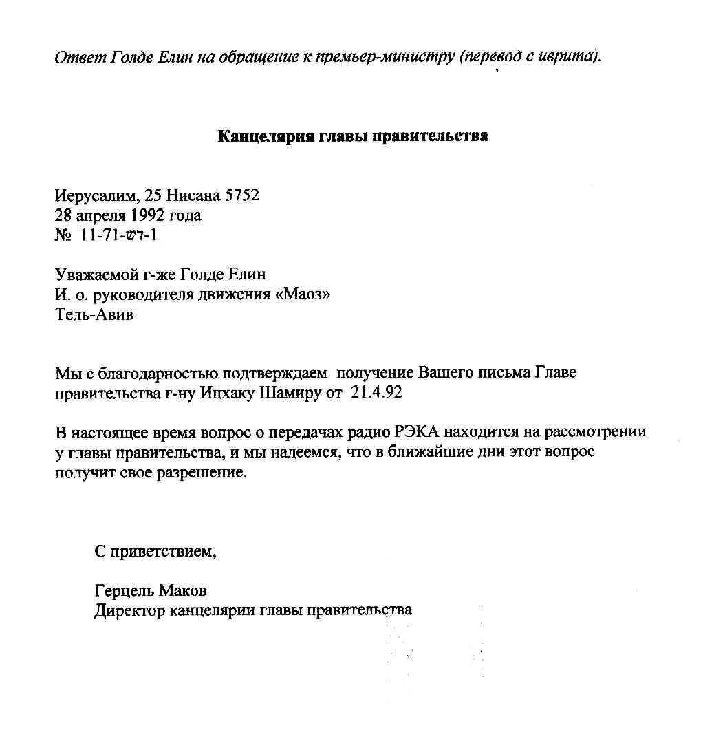 Reply to Golda Yellin on her Appeal to the Prime Minister about Radio REKA (translated into Russian)